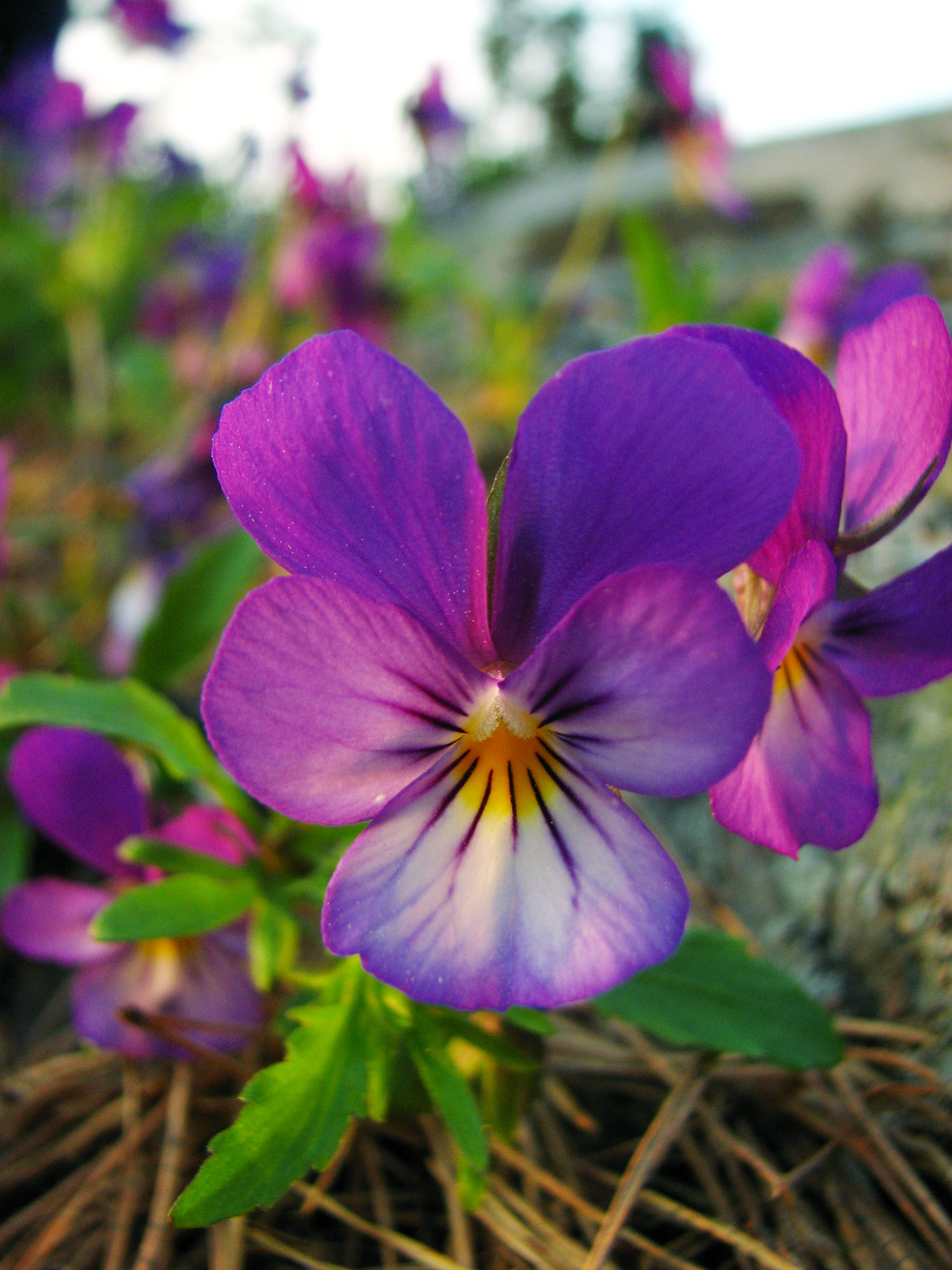 This picture shows a Heartsease (also Wild Pansy or Love-lies-bleeding); (Viola tricolor). Found on an island south of Dalarö, Stockholm, Sweden.